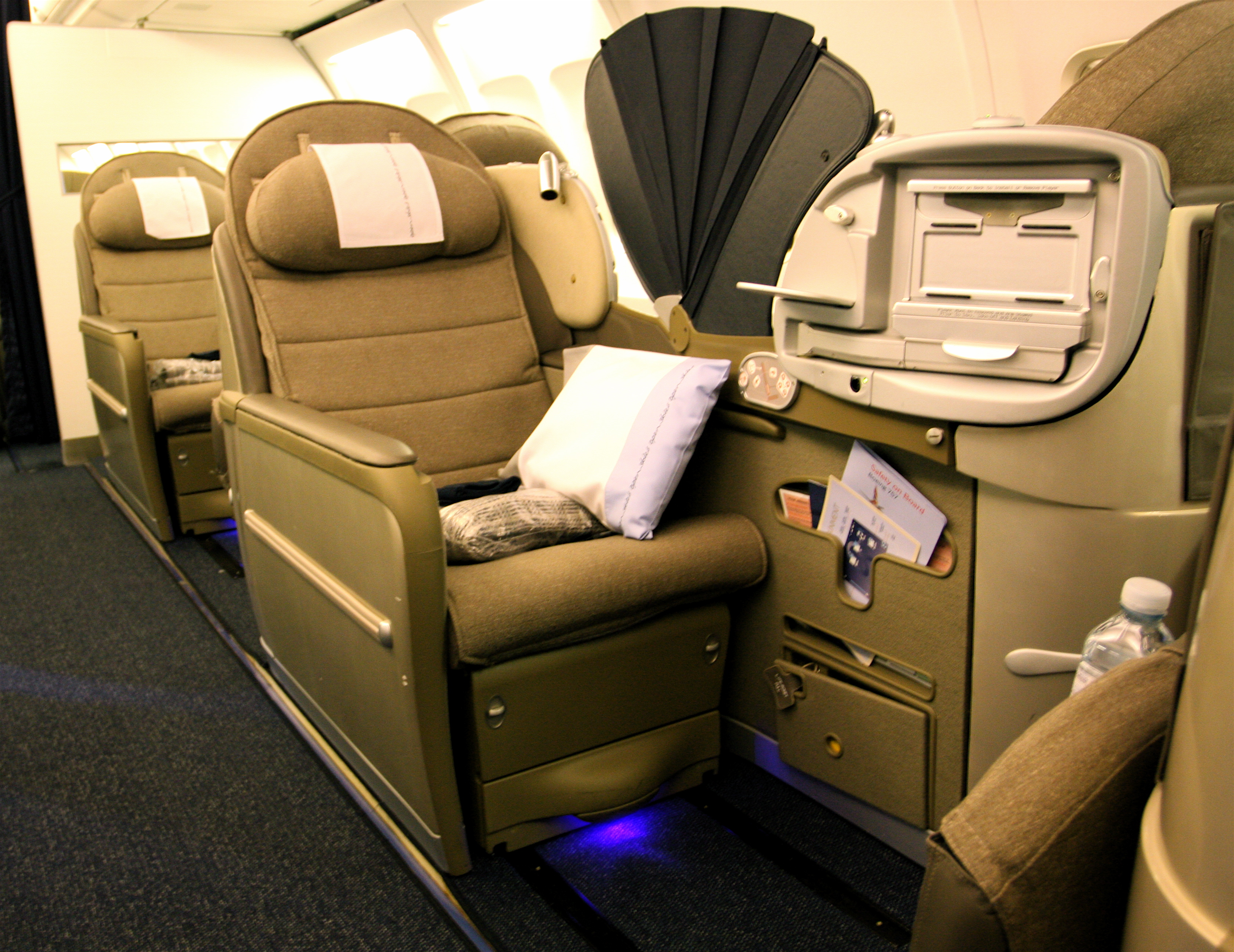 The Open Skies Biz Seat is virtually identical to British Airways' Club World product, and converts to a fully-flat bed for sleeping.